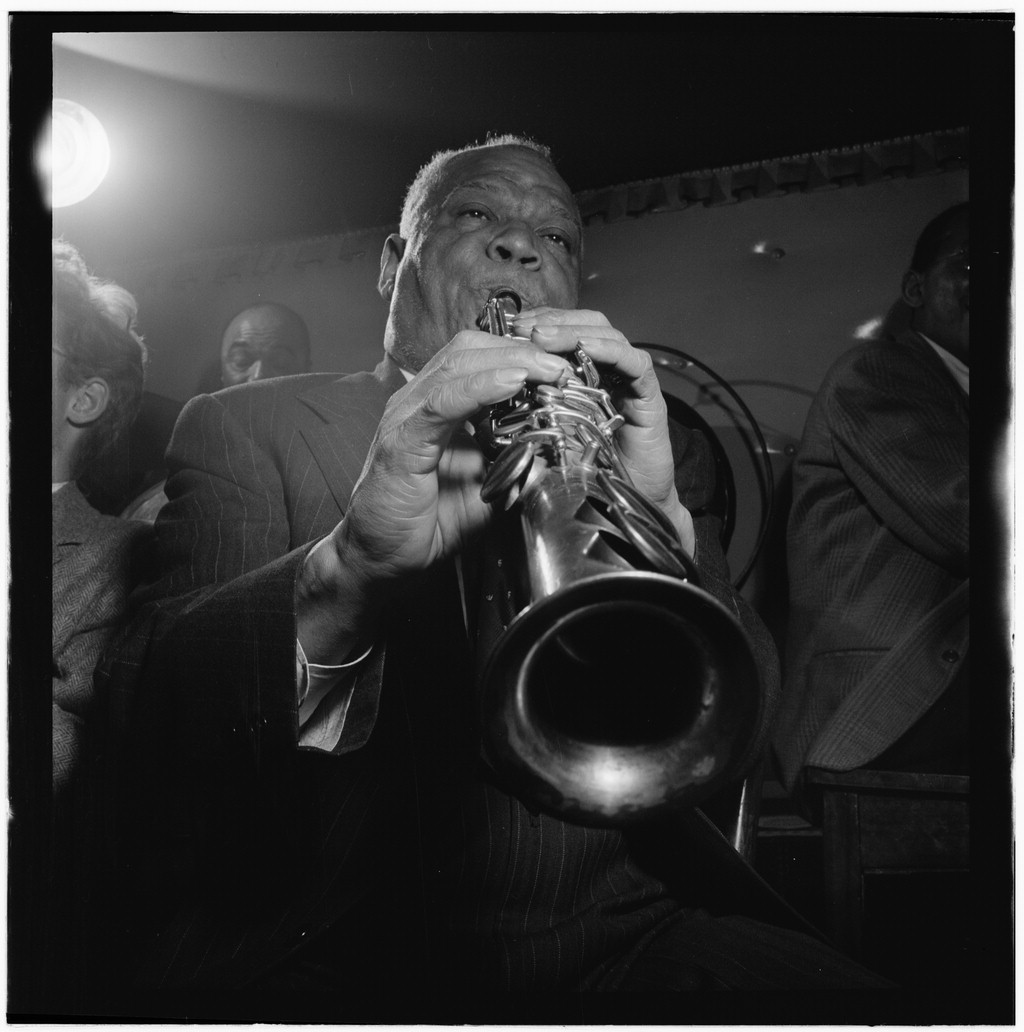 Sidney Bechet, Freddie Moore, Lloyd Phillips, and Bob Wilber, Jimmy Ryan's (Club), New York, N.Y.